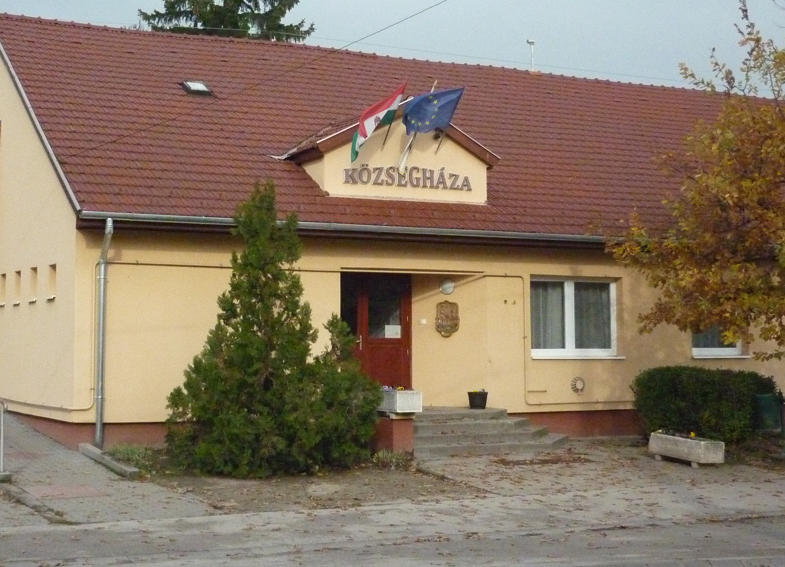 Village hall, Káloz, Fejér County, Hungary